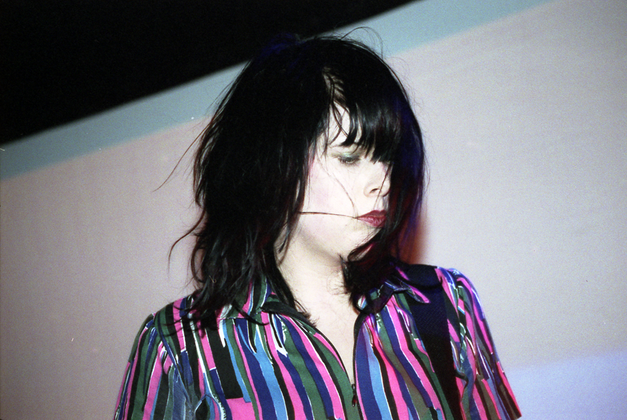 Le Tigre band member Johanna Fateman performing live